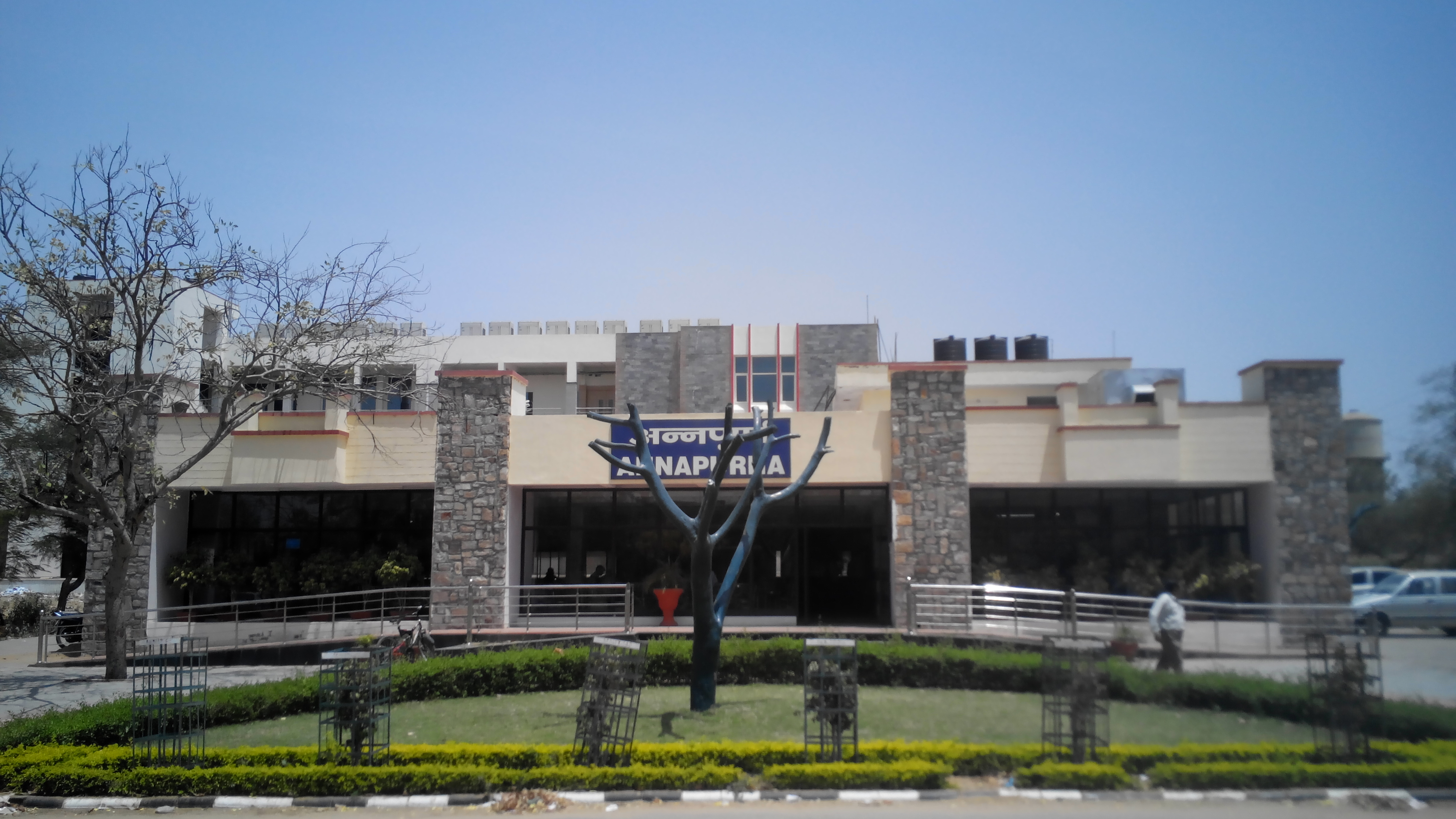 Malaviya National Institute of Technology Campus